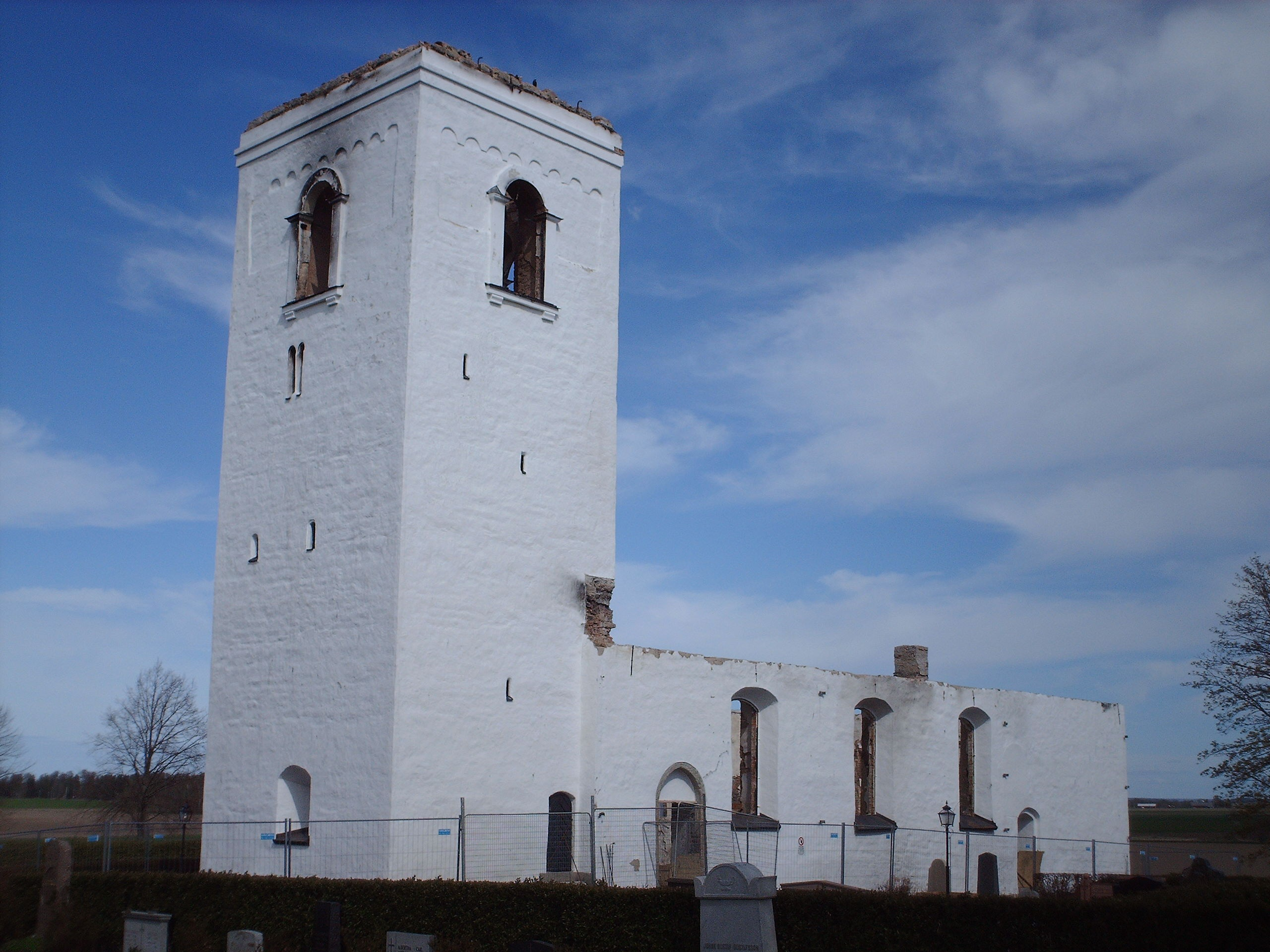 Älvestad Church, Motala Municipality, Östergötland, Diocese of Linköping, Sweden, after a fire in 2007.